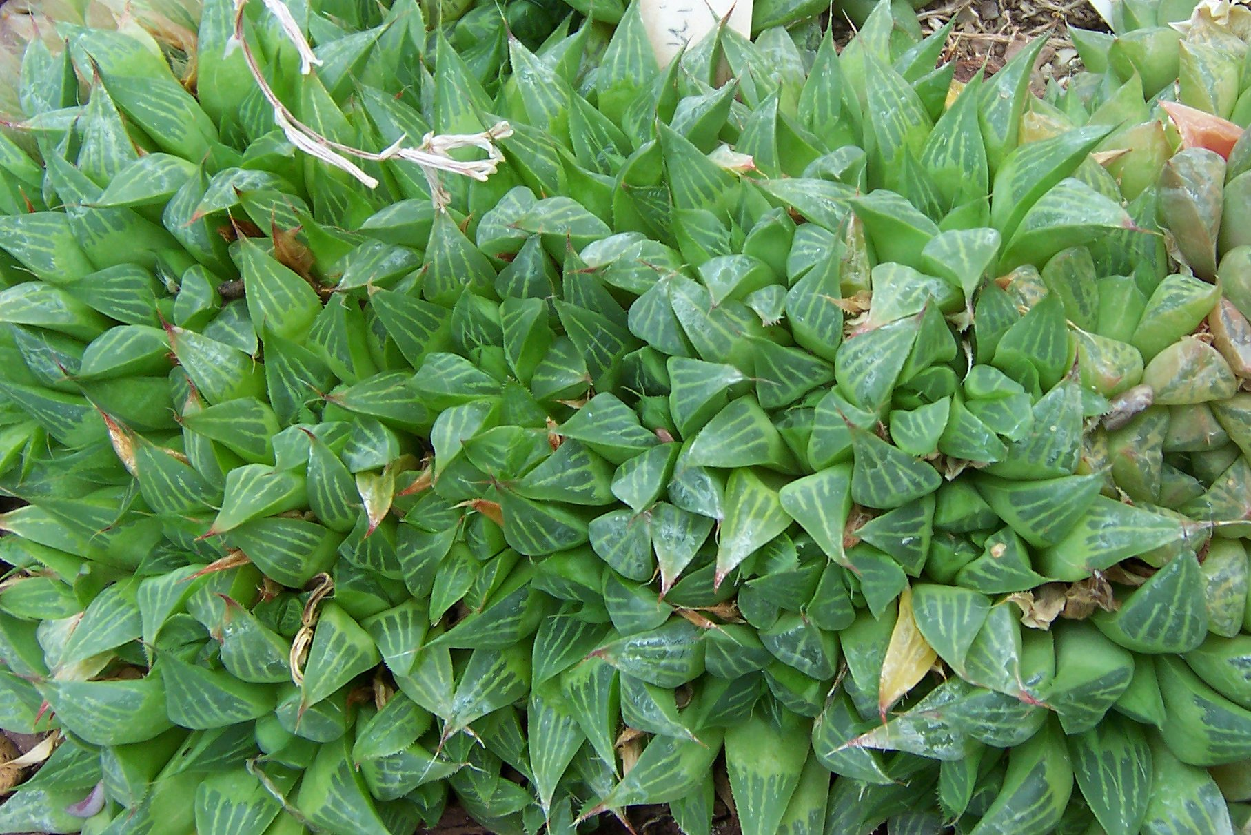 Haworthia mirabilis var. triebneriana (synonym: Haworthia nitidula - but see also Haworthia maraisii), habitus